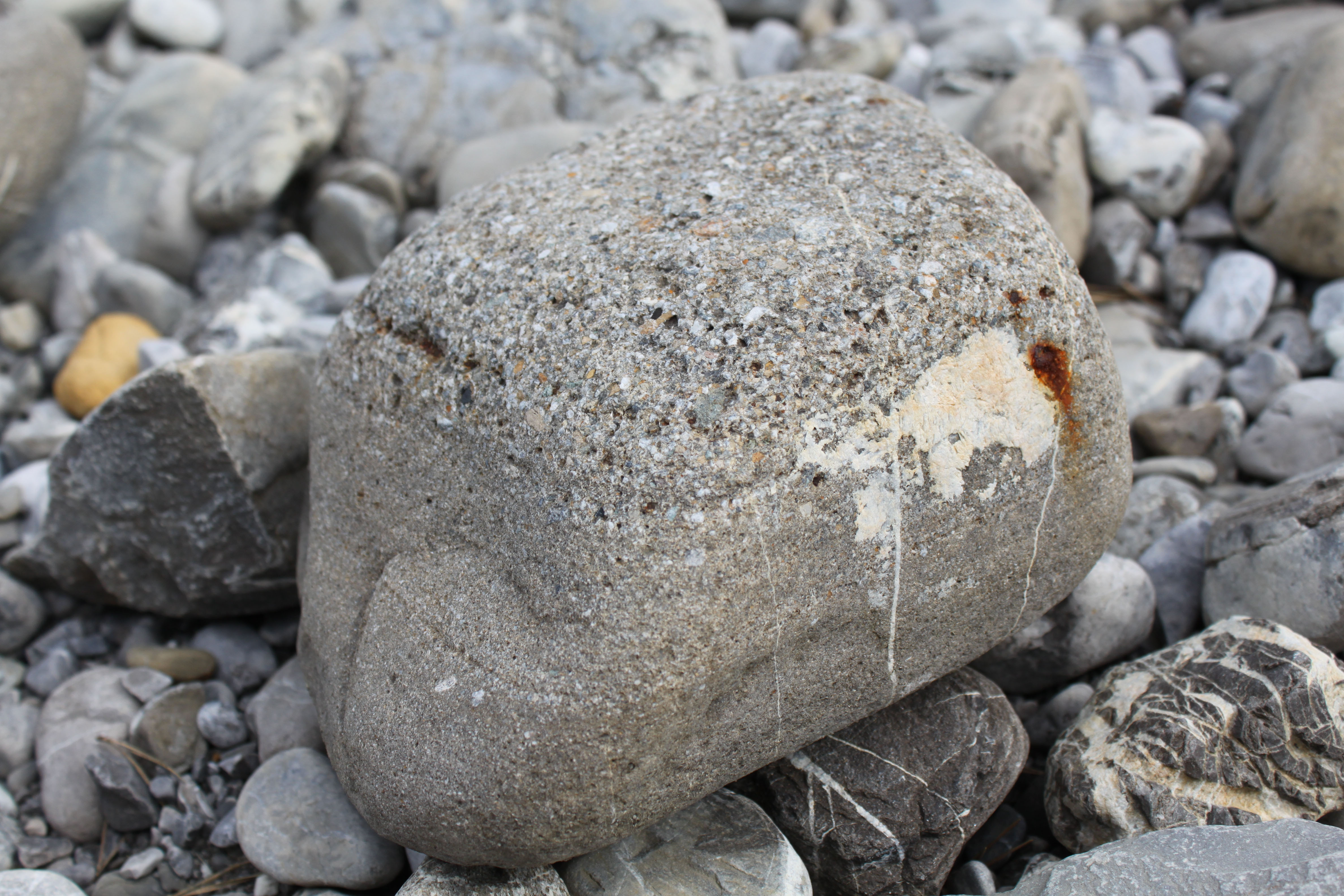 Large pebble showing graded bedding (the original bedding is inverted here, top is actually base) in the gravel bed of the small river Lutz, Vorarlberg, western Austria.